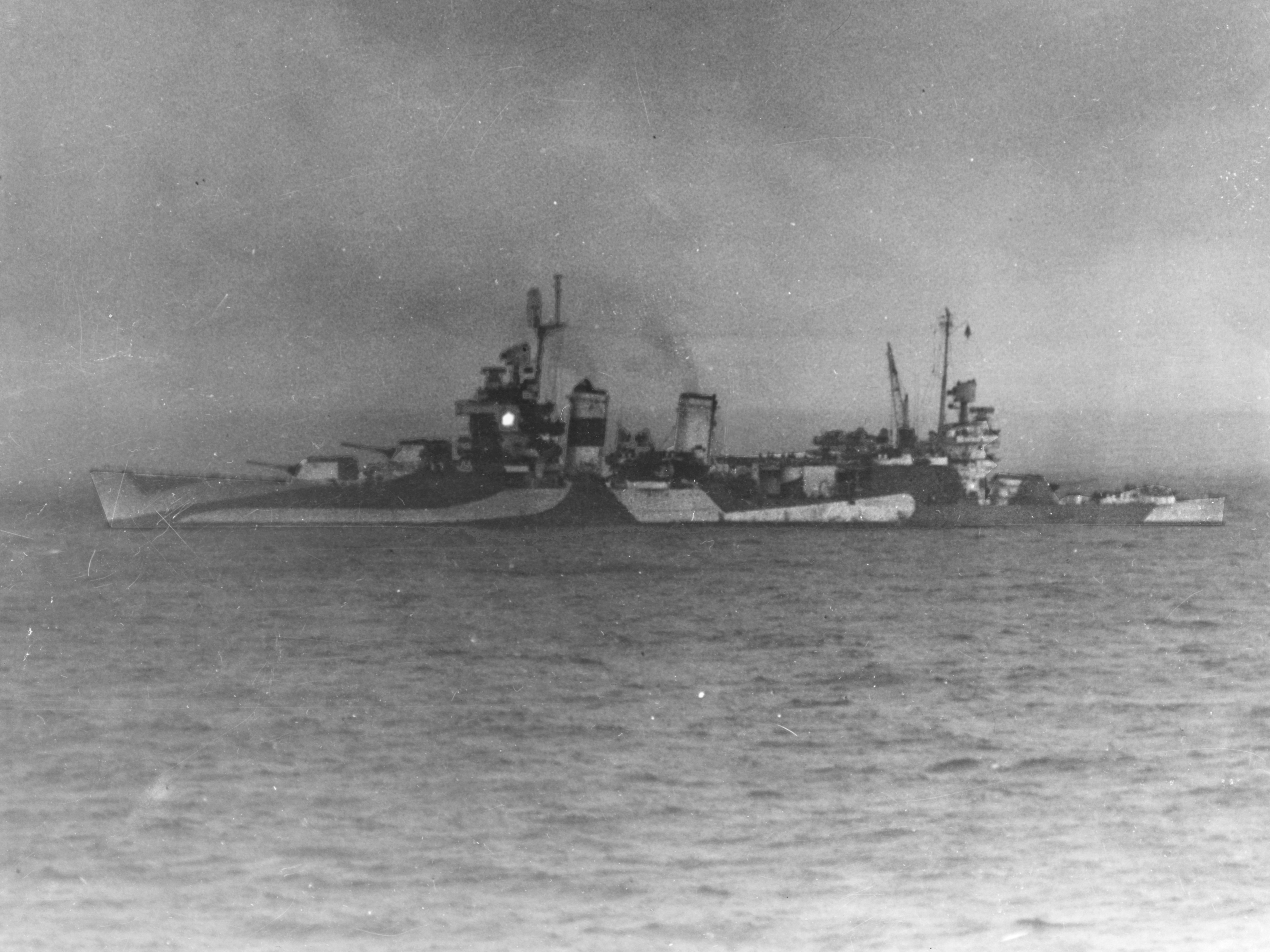 The U.S. Navy heavy cruiser USS Tuscaloosa (CA-37) signals with a blinker lamp, during a rainy dusk off Iwo Jima, 16 February 1945.